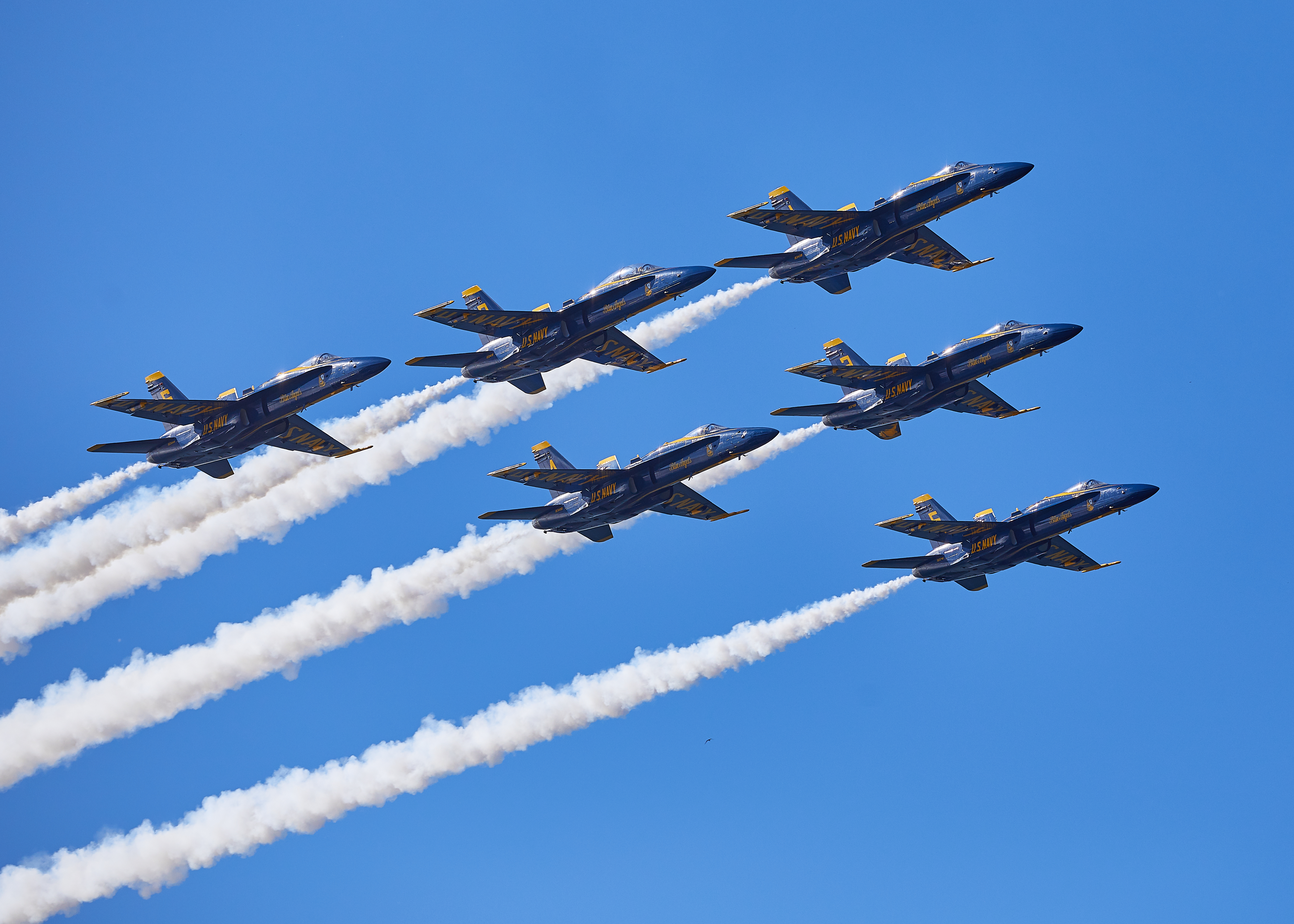 United States Navy’s flight demonstration squadron Blue Angels in delta formation during Fleet Week 2018 in San Francisco